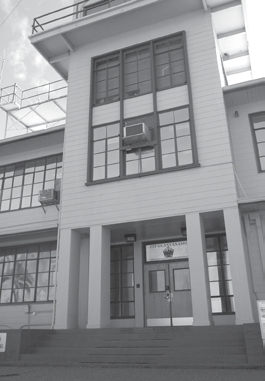 Building where military commissions are held at Joint Task Force-Guantanamo Bay Originally there was an active airfield on each side of the Bay. This building contained the control tower for the airfield on the Eastern side of the Bay.